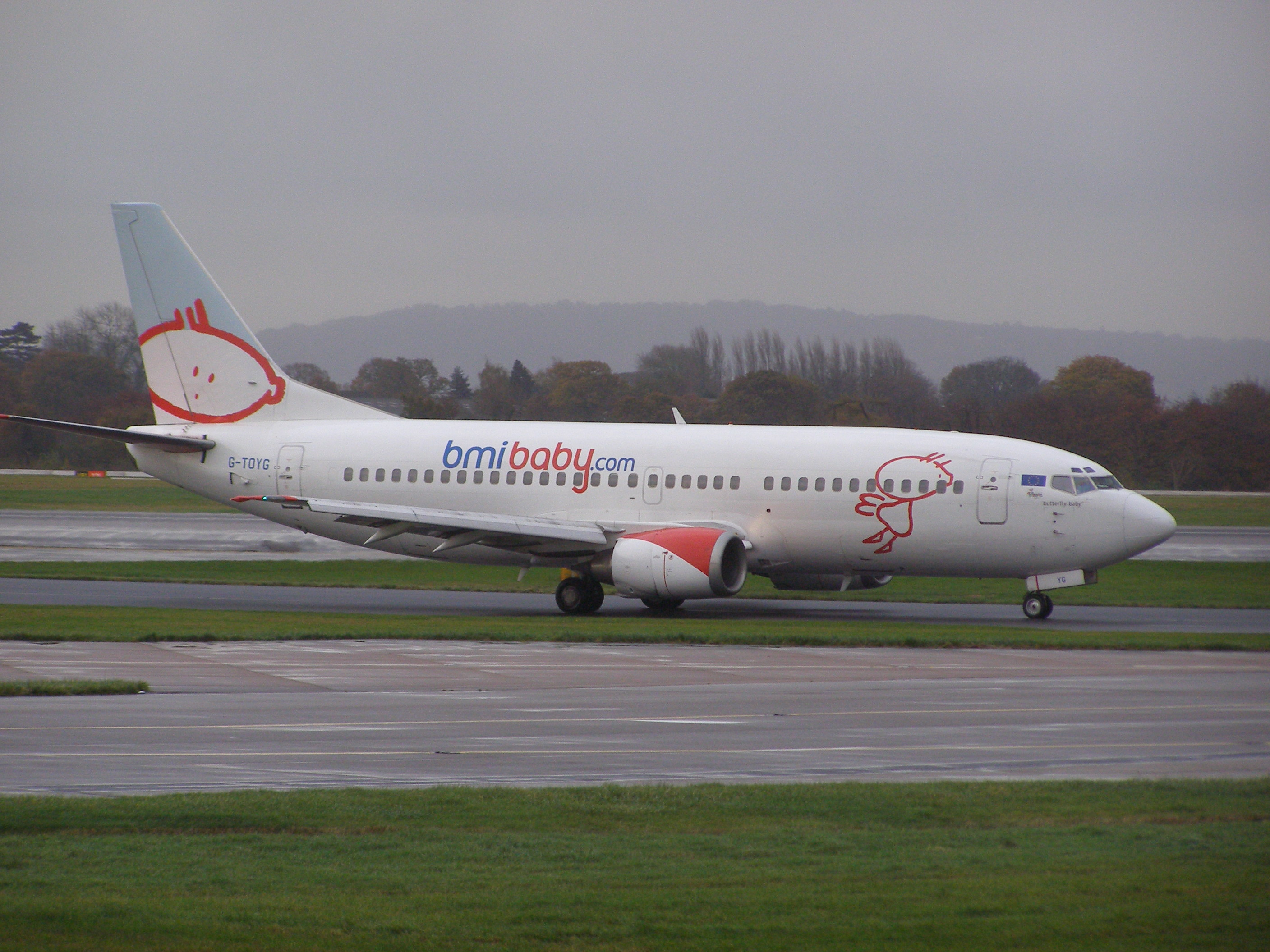 Boeing 737 G-TOYG of BMI Baby at Manchester Airport